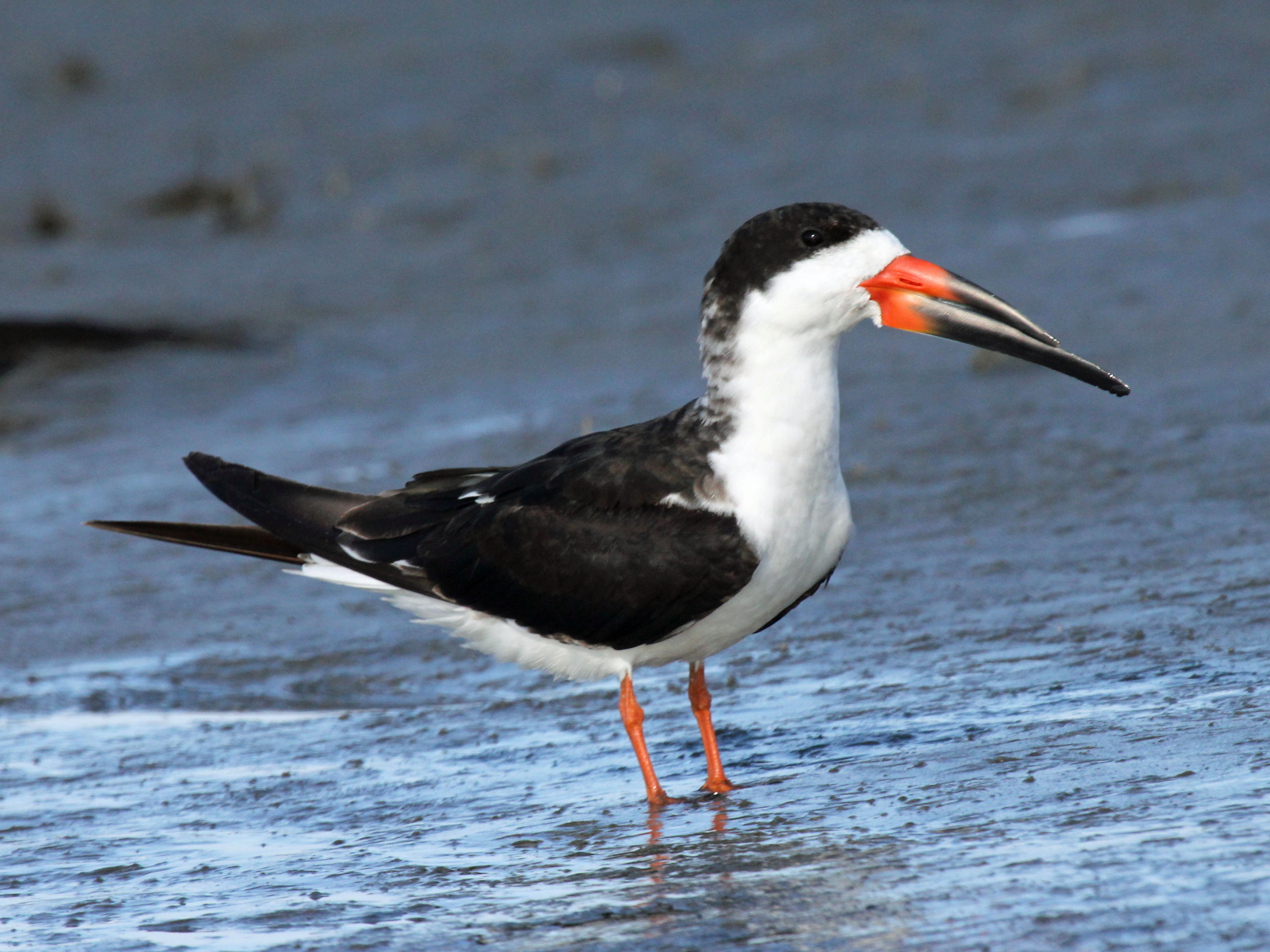 Black Skimmer (Rynchops niger) - Sunset Beach, North Carolina